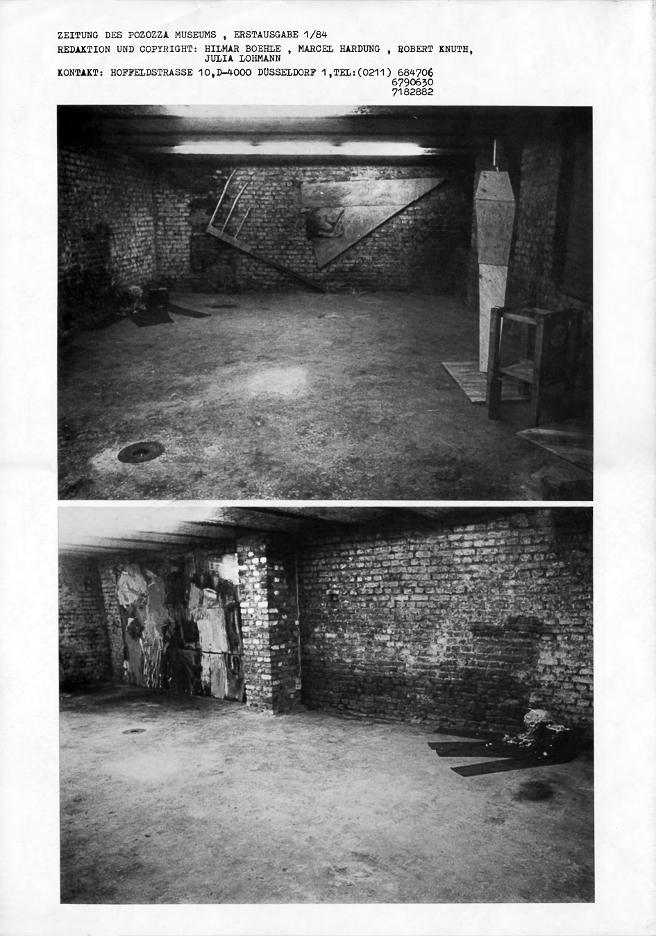 Publication of the Paul Pozozza Museum, 1984